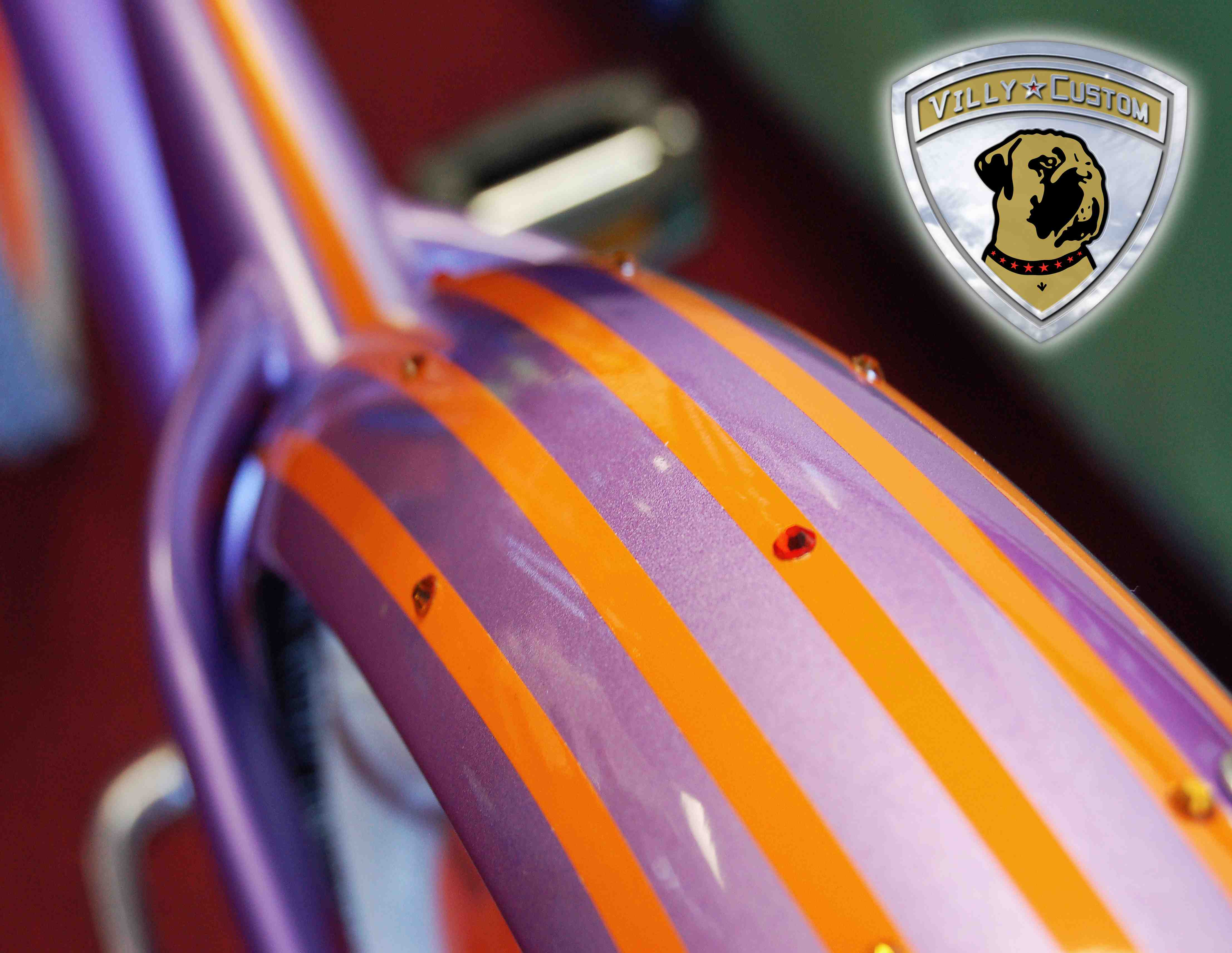 This is one of Villy Customs' fenders.